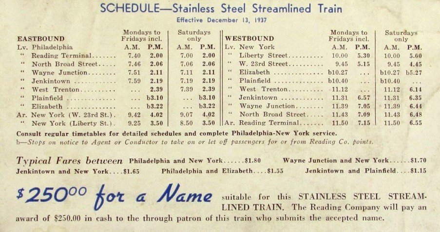 The Crusader schedule before the train had a name and details about the contest to name it.